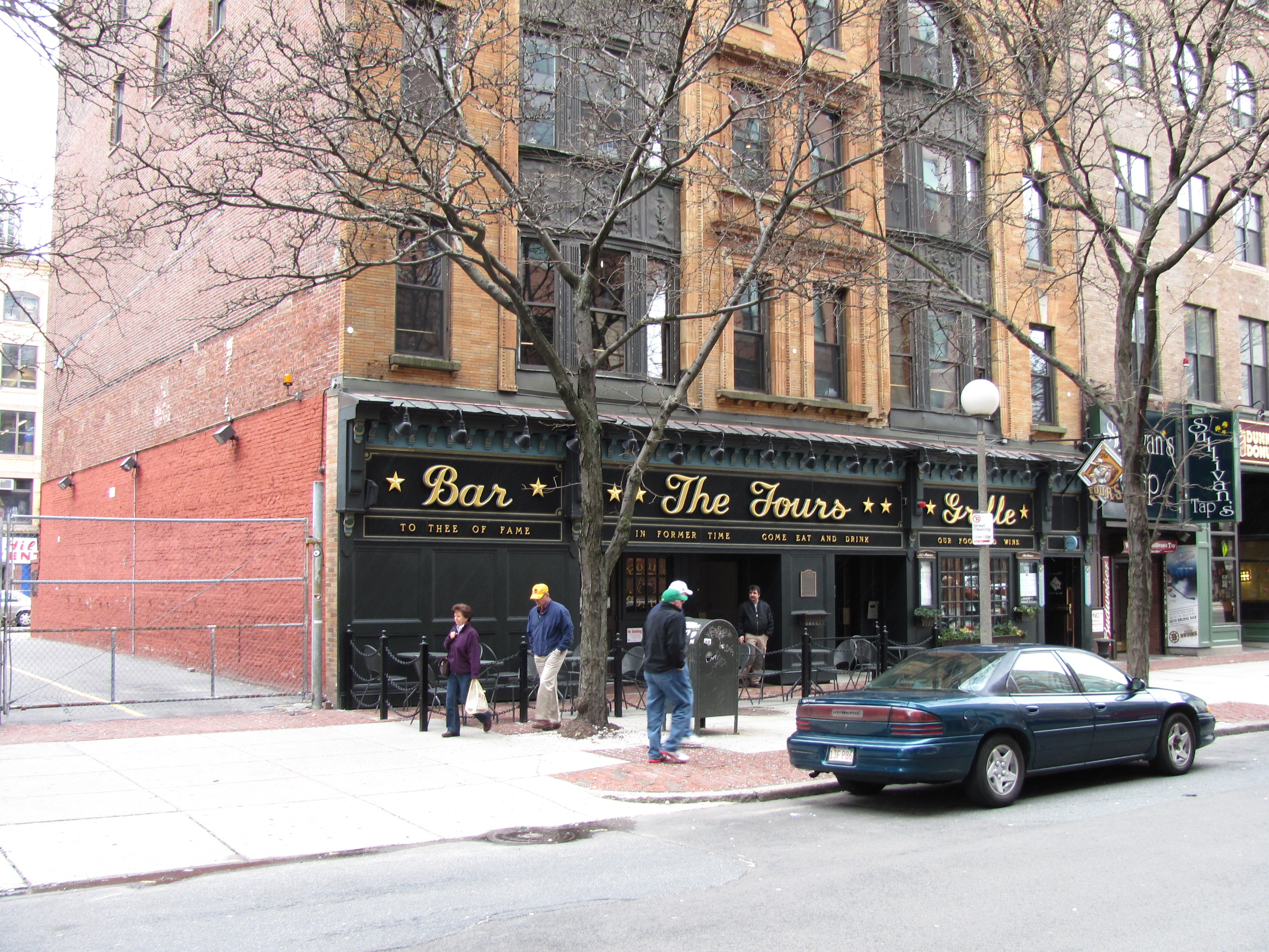 The Four's on Canal Street, Boston Massachusetts